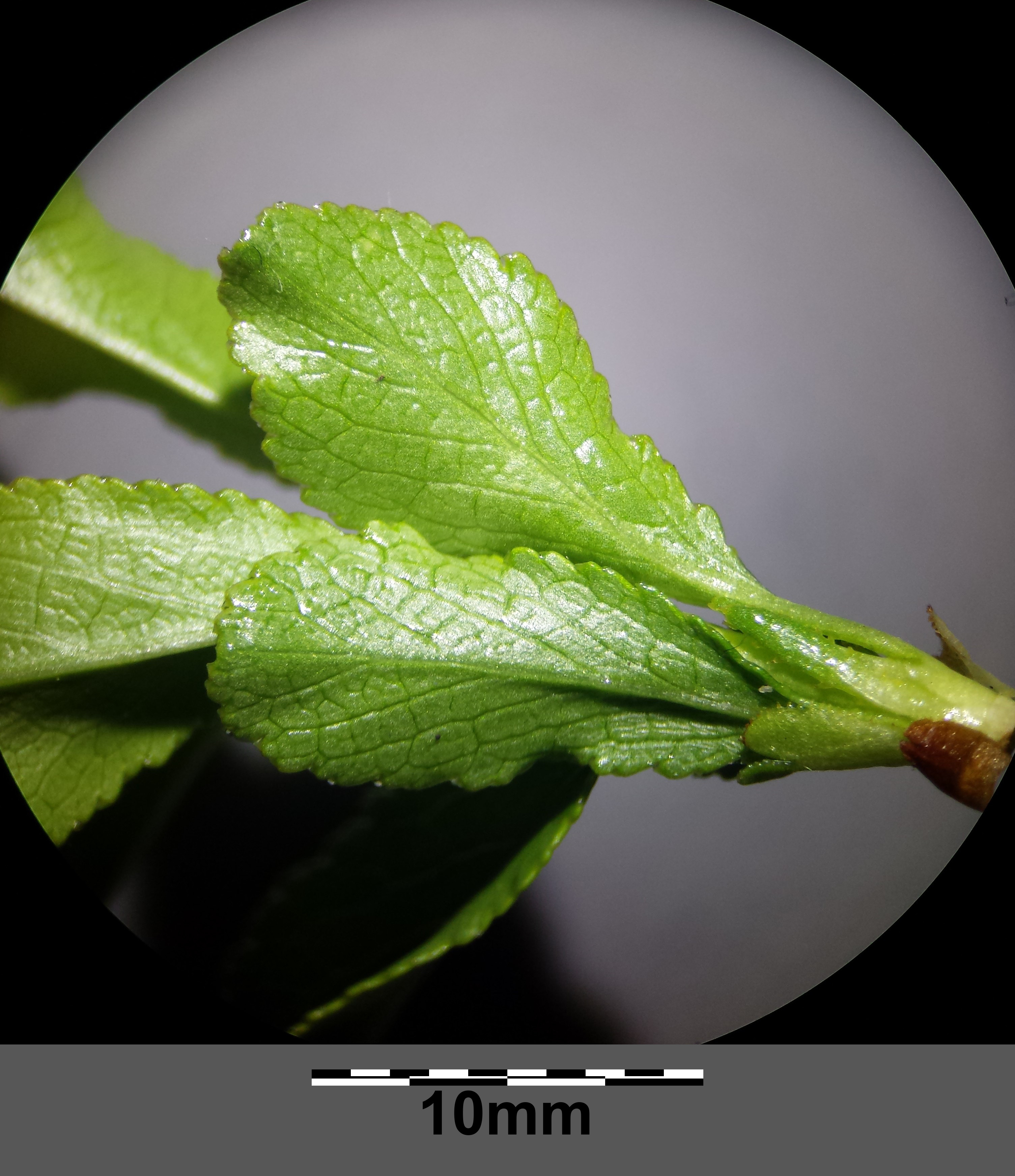 Short shoot with obovate leaves Taxonym: Prunus fruticosa ss Fischer et al. EfÖLS 2008 ISBN 978-3-85474-187-9 Location: Altenbergen to the North of Ladendorf, district Mistelbach, Lower Austria - ca. 290 m a.s.l. Habitat: slope